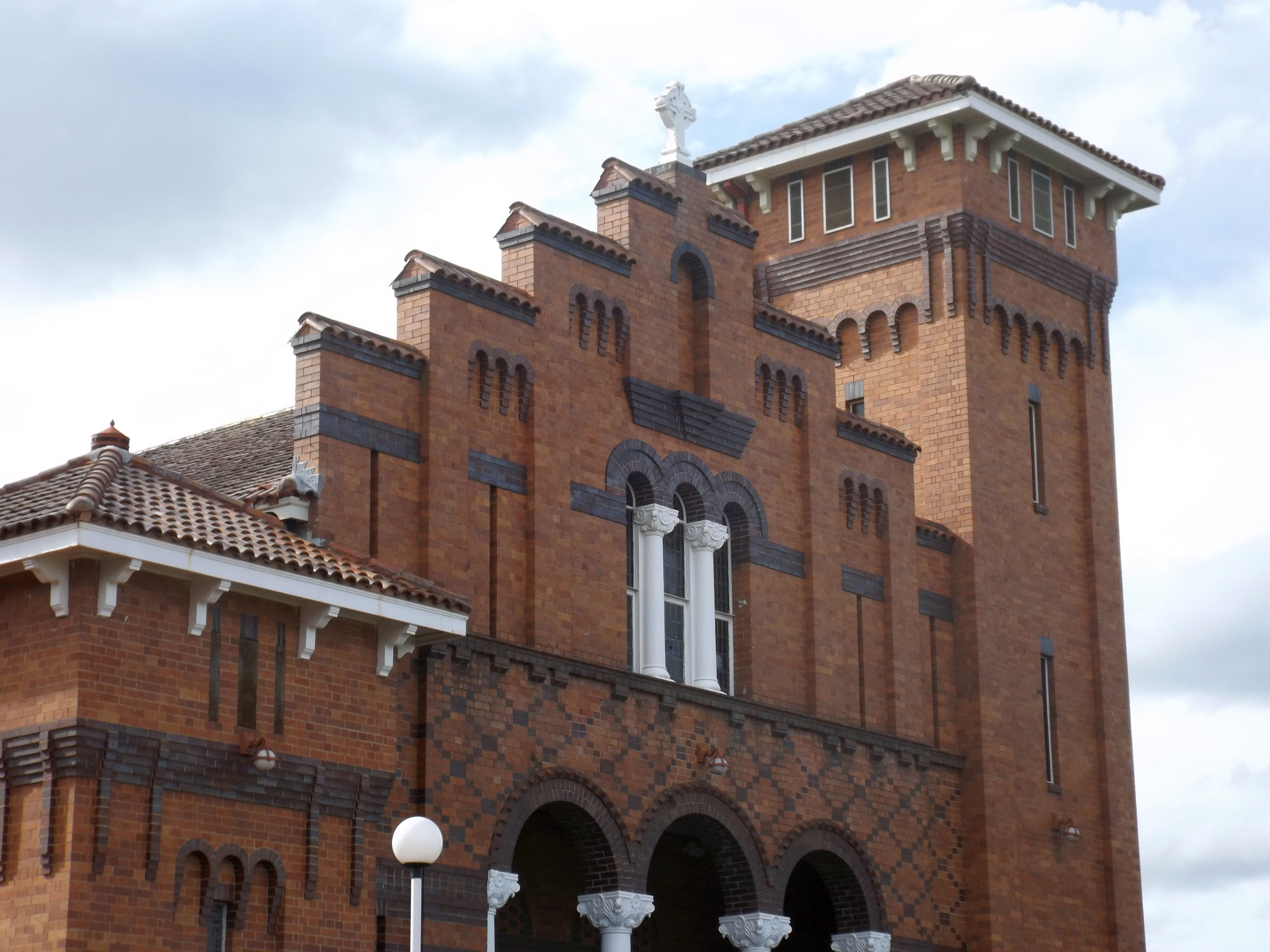 Photo of Church of Saint Ignatius Loyola from Grove Street in Toowong, Brisbane, Queensland, Australia.